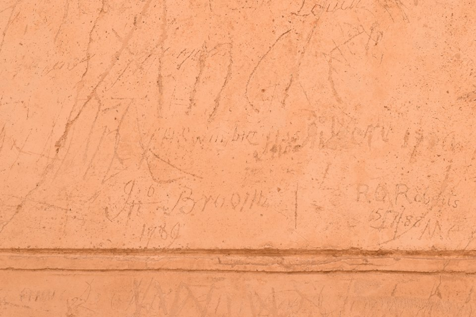 18th century graffiti in the temple of Isis sacrarium